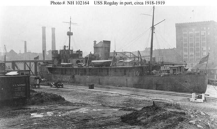 The United States Navy icebreaker , probably while in port at Boston, Massachusetts